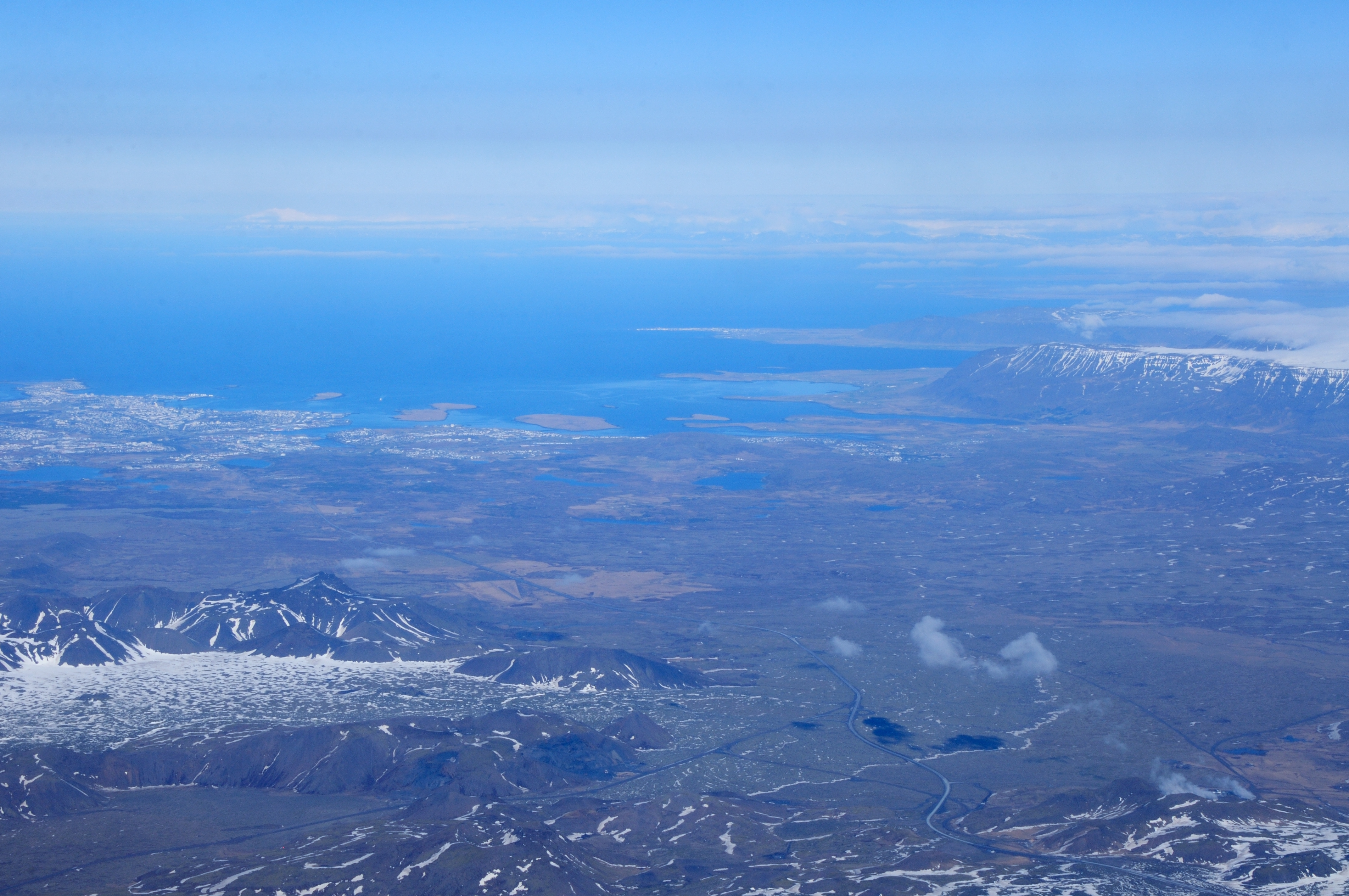 Iceland, picture take during the approach into KEF, unfortunately through a pretty dirty window.